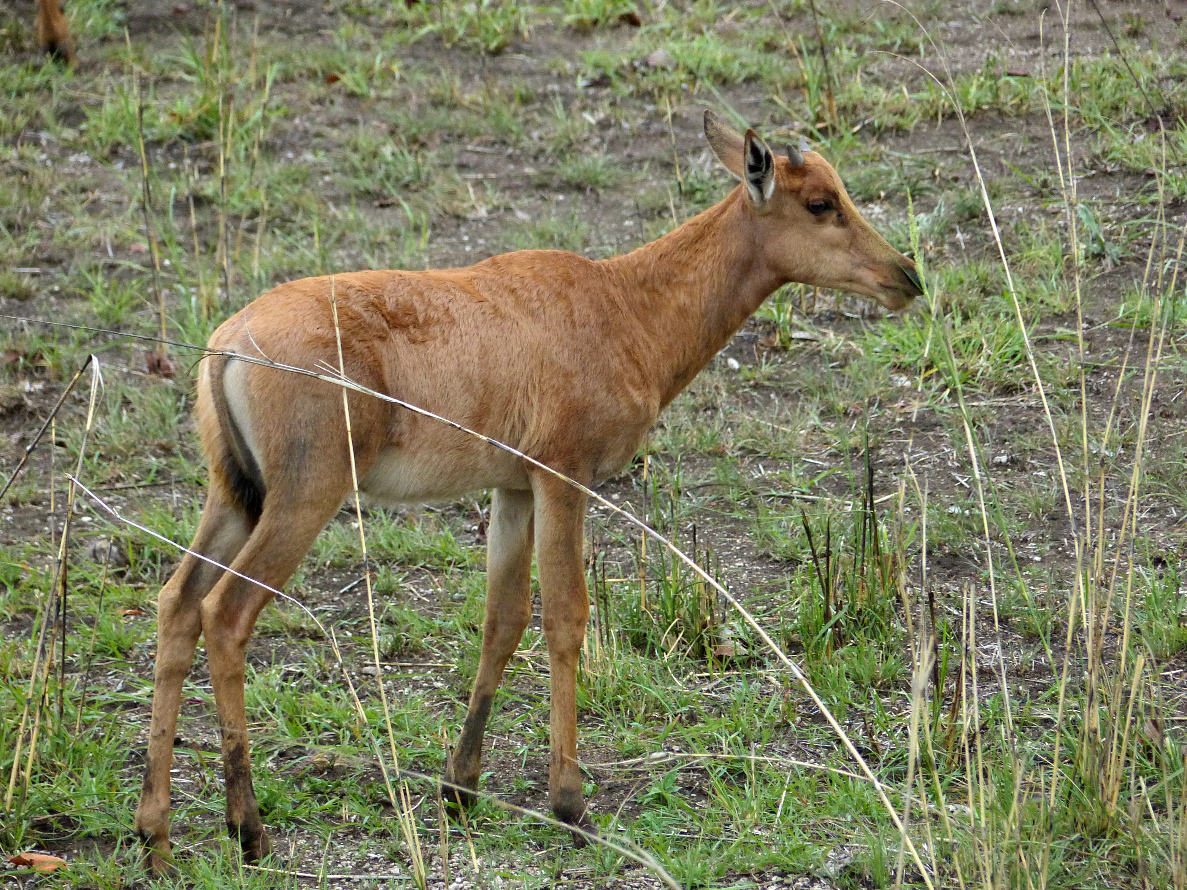 Malopenyana Waterhole, North of Letaba, Kruger NP, SOUTH AFRICA